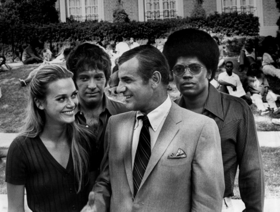 1970 cast photo from the television program The Mod Squad. From left: Peggy Lipton, Michael Cole, Tige Andrews, Clarence Williams III.